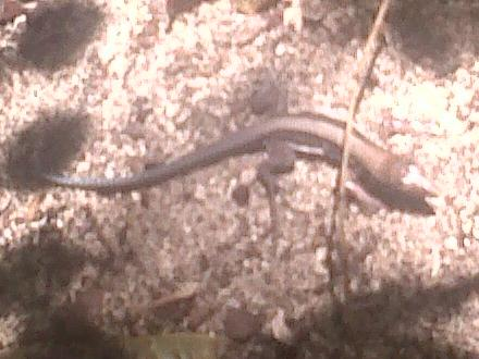 Saint Croix ground lizard (Ameiva polops) on Buck Island Reef National Monument off the northeast coast of St. Croix, Virgin Islands. 17°47′23″N 64°37′30″W / 17.78972°N 64.625°W